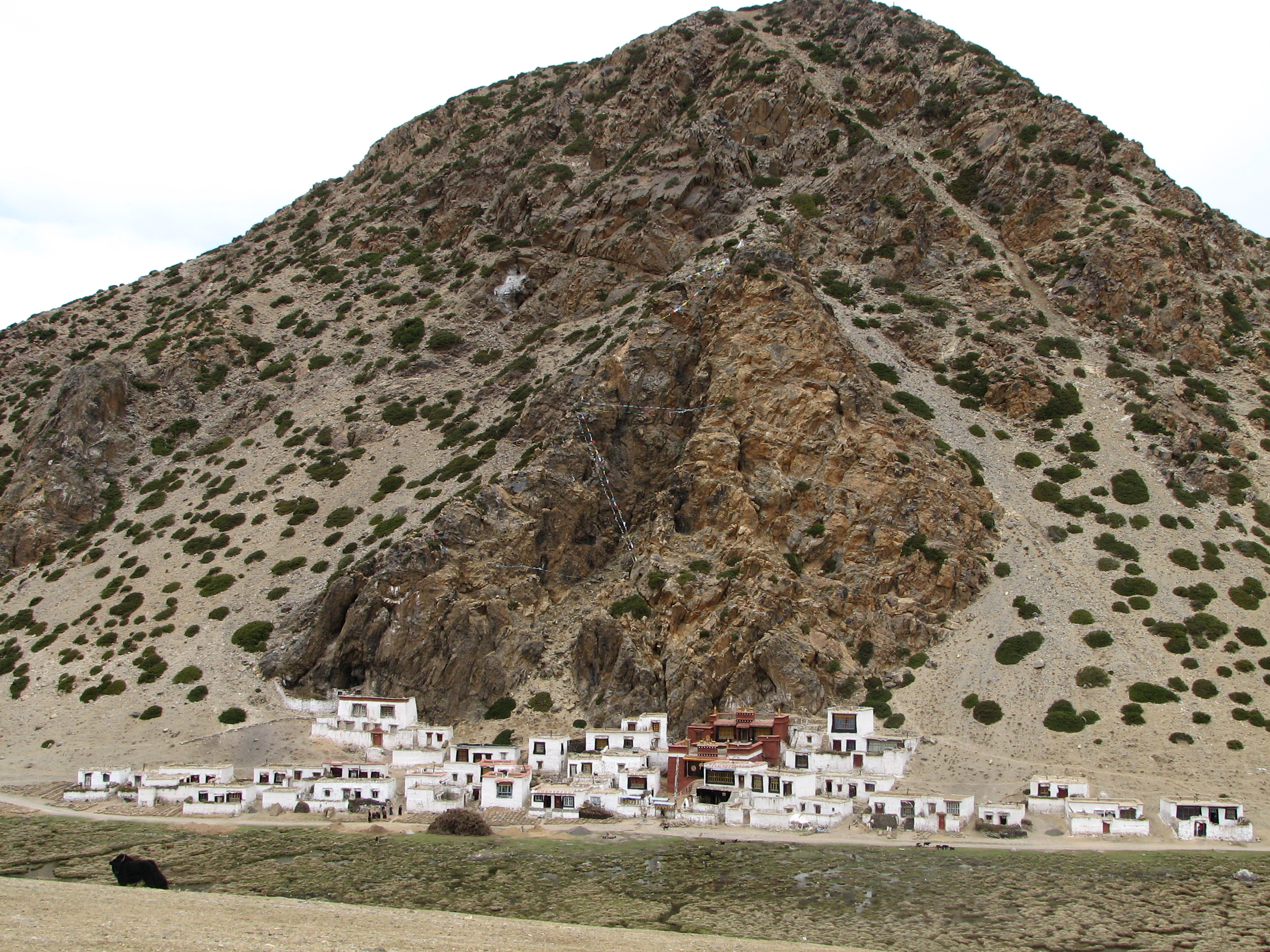 Trekking 3 days from Tsurpu Monastery to Yangpachen Monastery. The pretty Dorje Ling Nunnery. If you trekking, you can apparantly stay the night at Dorje Ling or camp in the meadows nearby although we didn't. It is only a 3-4 flat hours to Yangpachen from here so depending on when you reach the Nunnery, you can shorten the trek from 4 days to 3. There is no bridge across the swampy, braided river between you and the nunnery. It can be challenging to cross in the spring when the water is high. The locals may be able to show a meandering path across. If not, you will have to swing around the valley to reach the north side of the Dorje Ling Valley. This longer route is reported to require at least an hour longer of hiking.